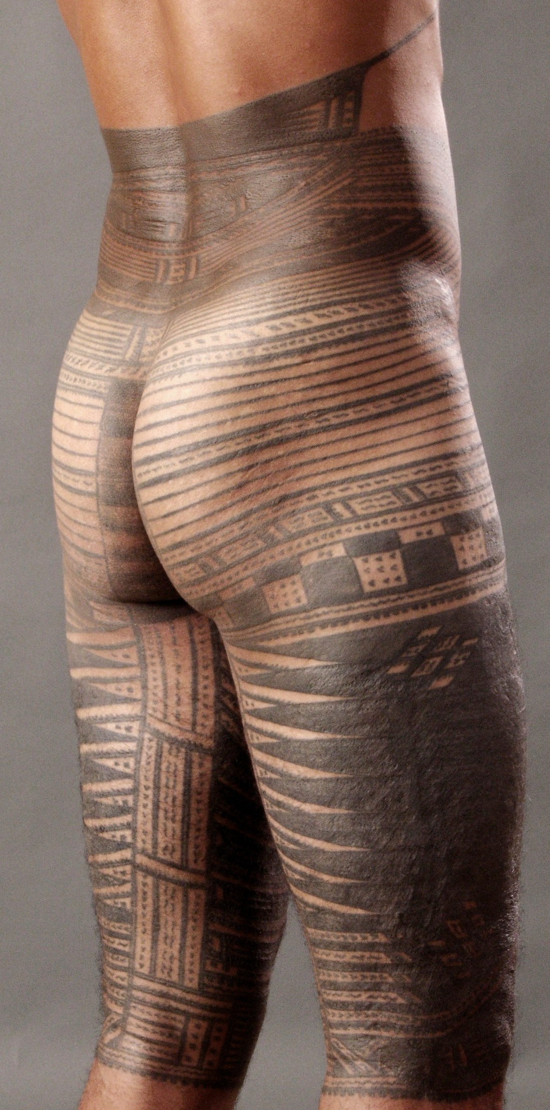 A traditional Samoan male tattoo from the waist to below the knees seen from the side and back.